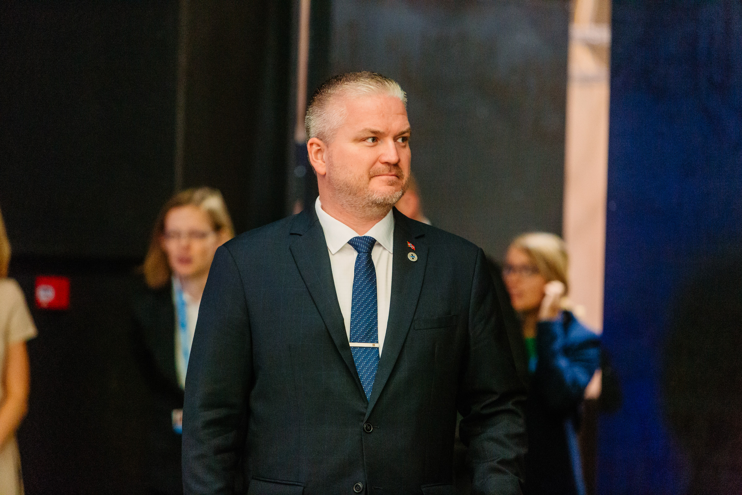 Tom Cato Karlsen, State Secretary, Ministry of Transport and Communications, Norway Photo: Arno Mikkor (EU2017EE)